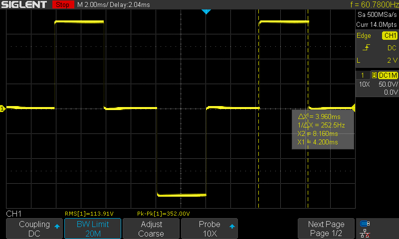 Waveform of an automotive inverter producing 120 V AC, approximately 60 HZ|, from the vehicle's 12 volt cigarette lighter power outlet. This three-step waveform uses alternating positive and negative pulses to approximate the peak to peak and RMS values of a sine wave. A simple circuit can be used because only two voltage levels are required.